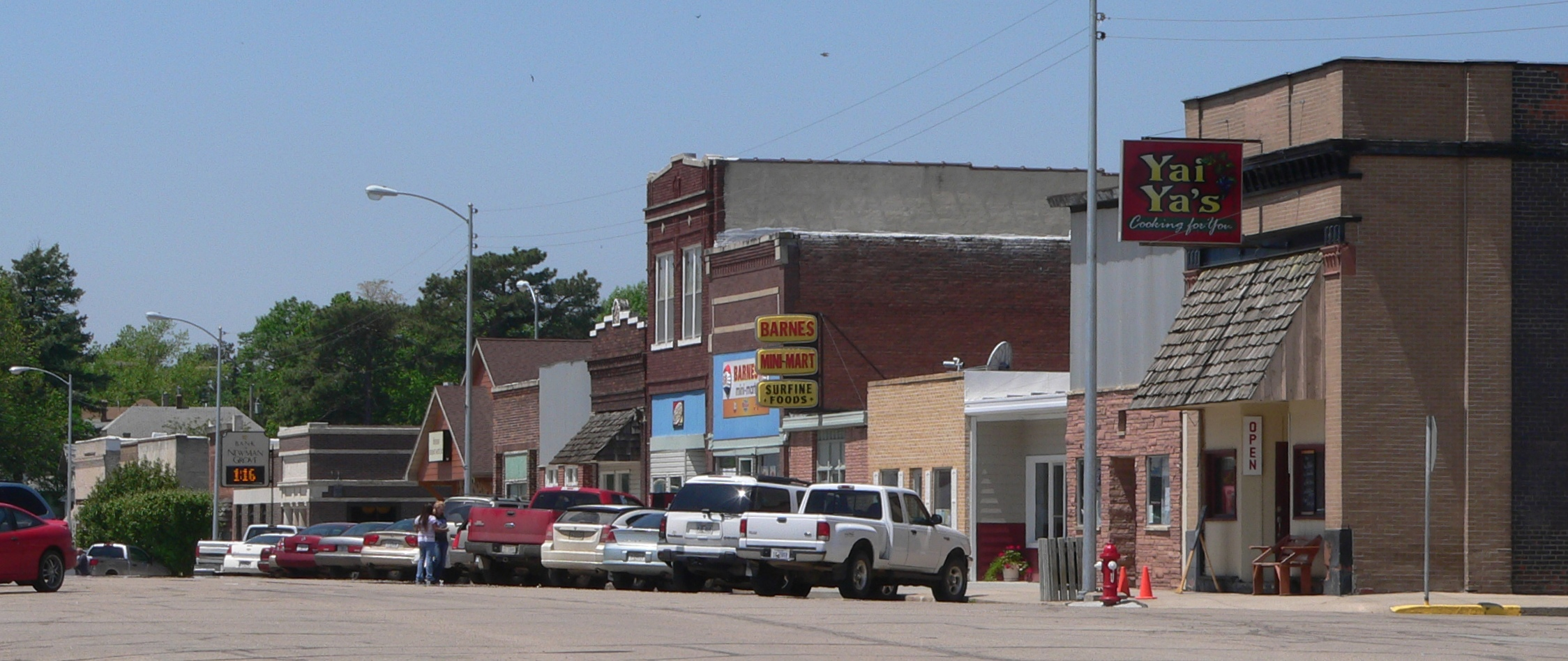 Downtown Newman Grove, Nebraska: north side of Hale Avenue, facing west.